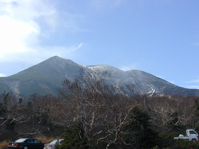 Mount Norikura (Norikura-dake)'s Kengamine Peak as seen from the ENE in Honshu, Japan.